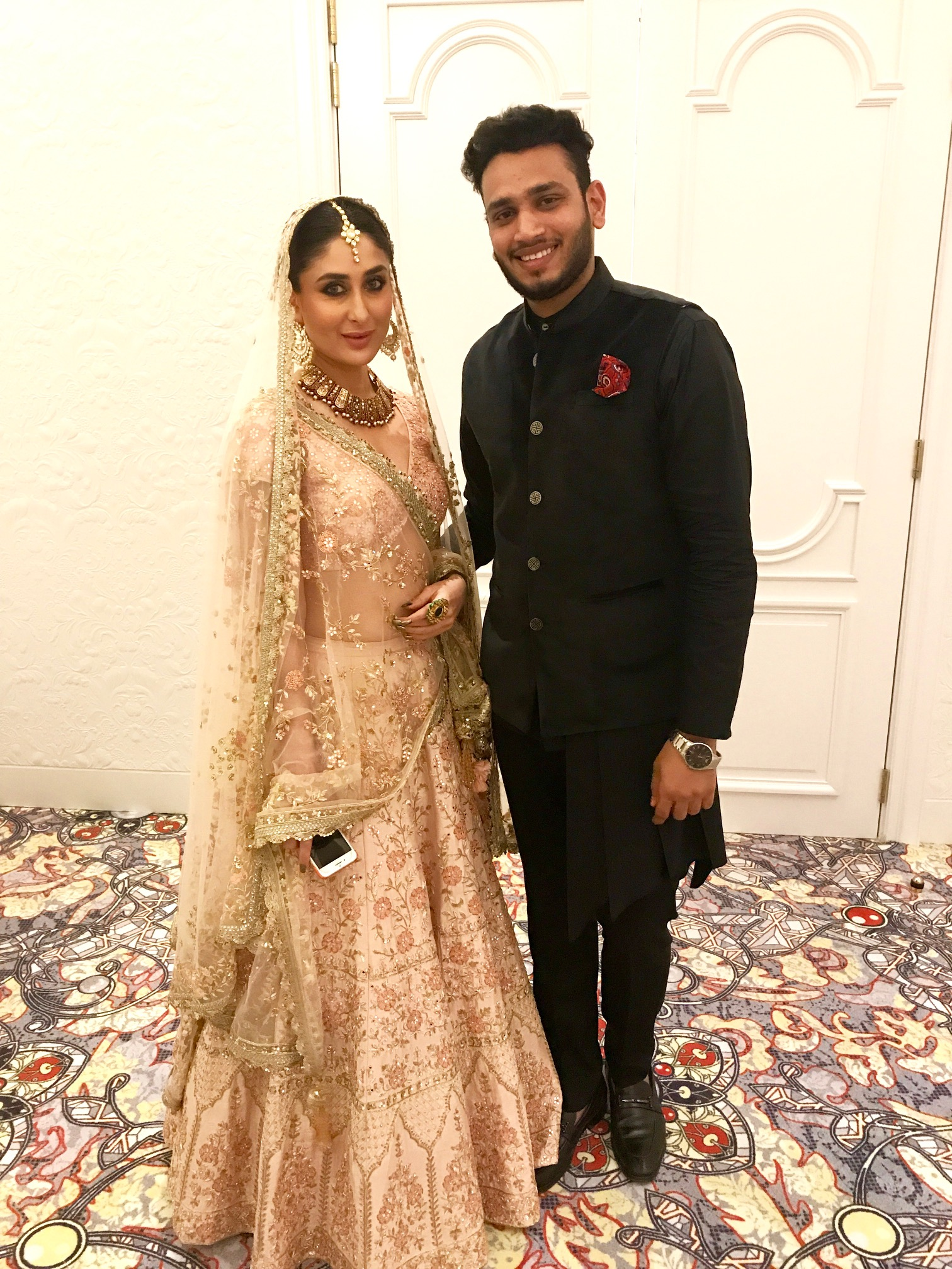 Lokesh Sharma with Bollywood Actress Kareena Kapoor Khan Shop Qatar Festival 2018. She was showstopper for ace designer Vikram Phadnis